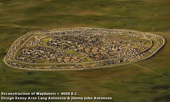 Reconstruction of the Trypillian city Maydanets c 4000 B.C. Based on information from the book LOOKING FOR TRYPILLYA-CULTURE PROTO-CITIES by Mykhailo Videiko.